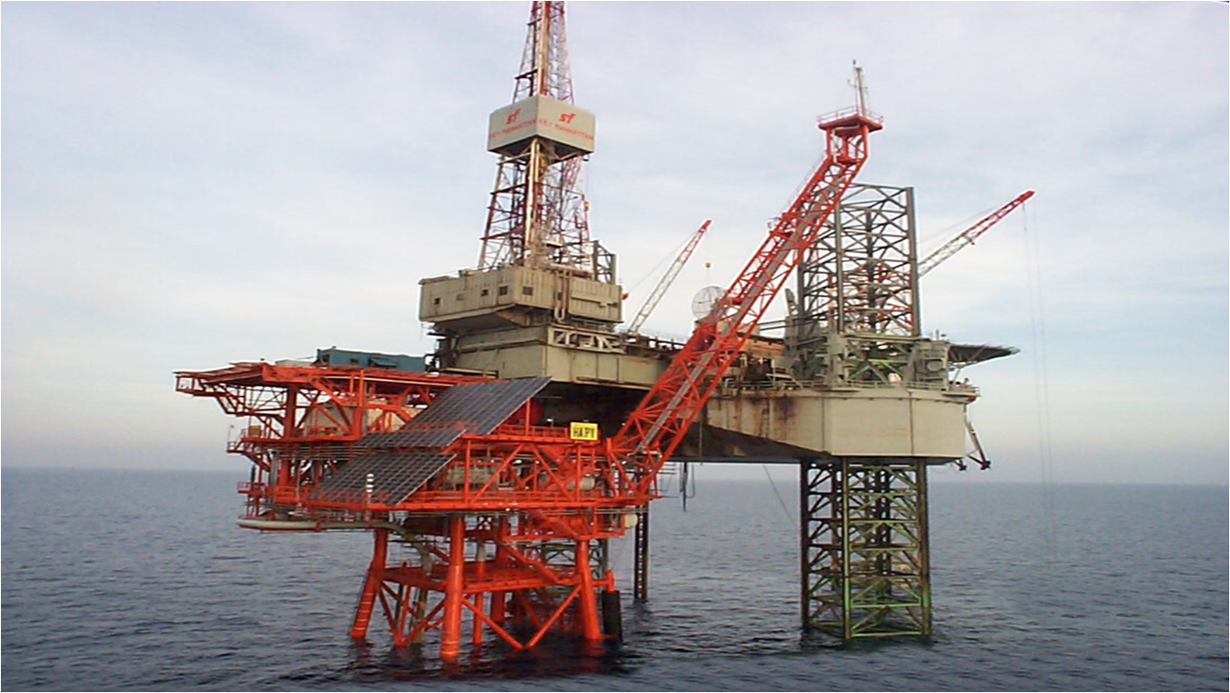 Ha'py